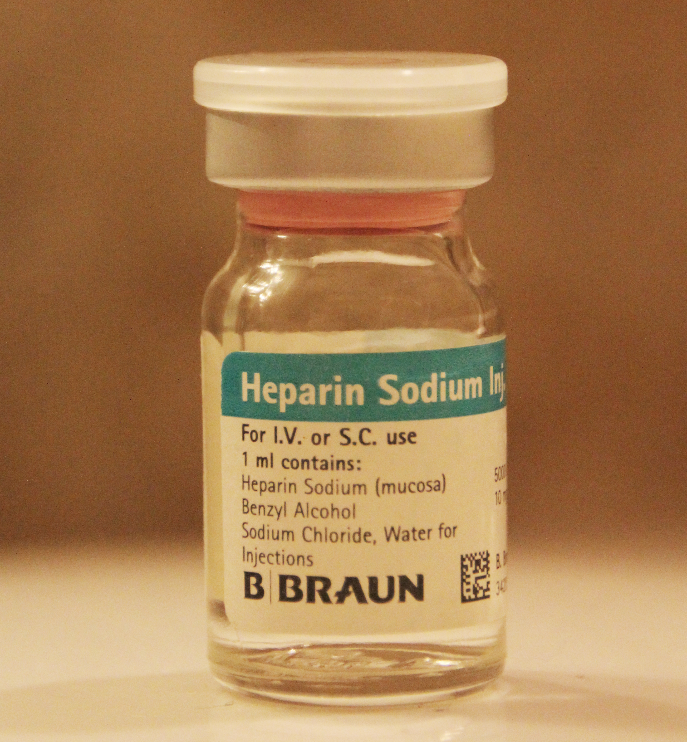 A sample of Heparin Sodium for injection